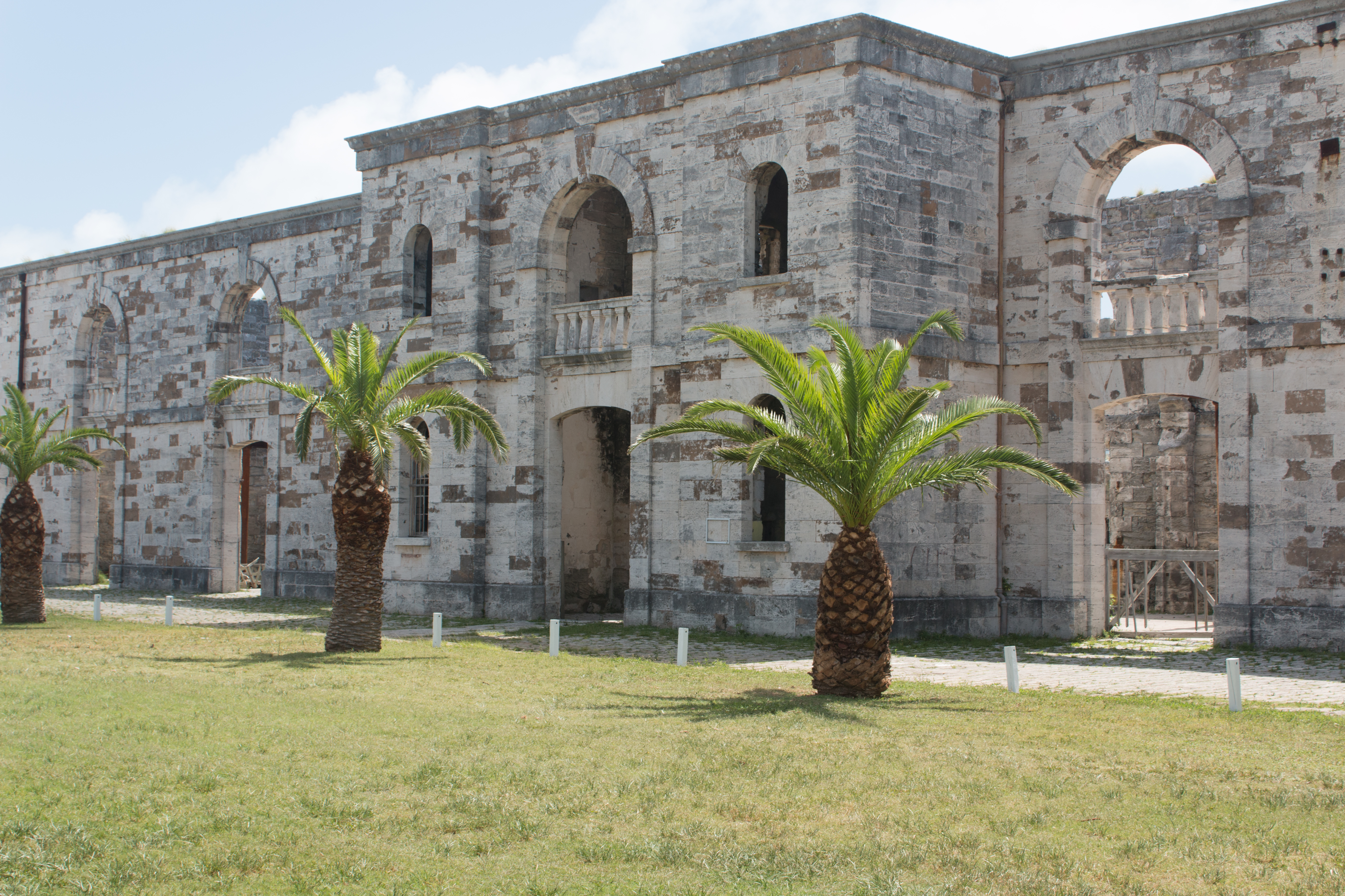 Victualling yard at the Royal Naval Dockyard, Bermuda